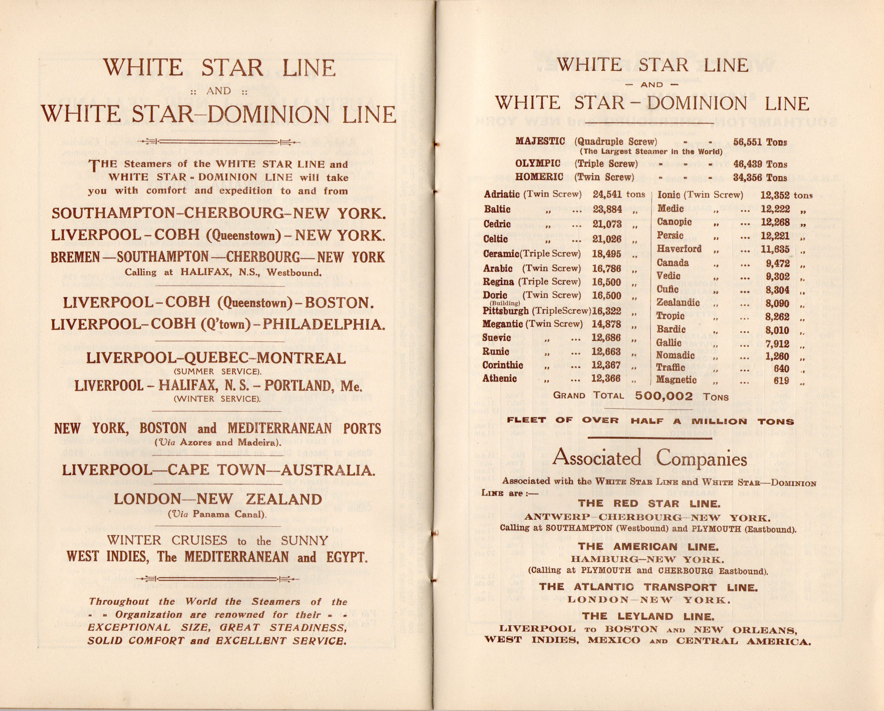 White Star Line routes and steamer fleet from the Passenger List (First Class) for the White Star Line steamer RMS "Olympic" for April 28, 1923 voyage from New York to Southampton.